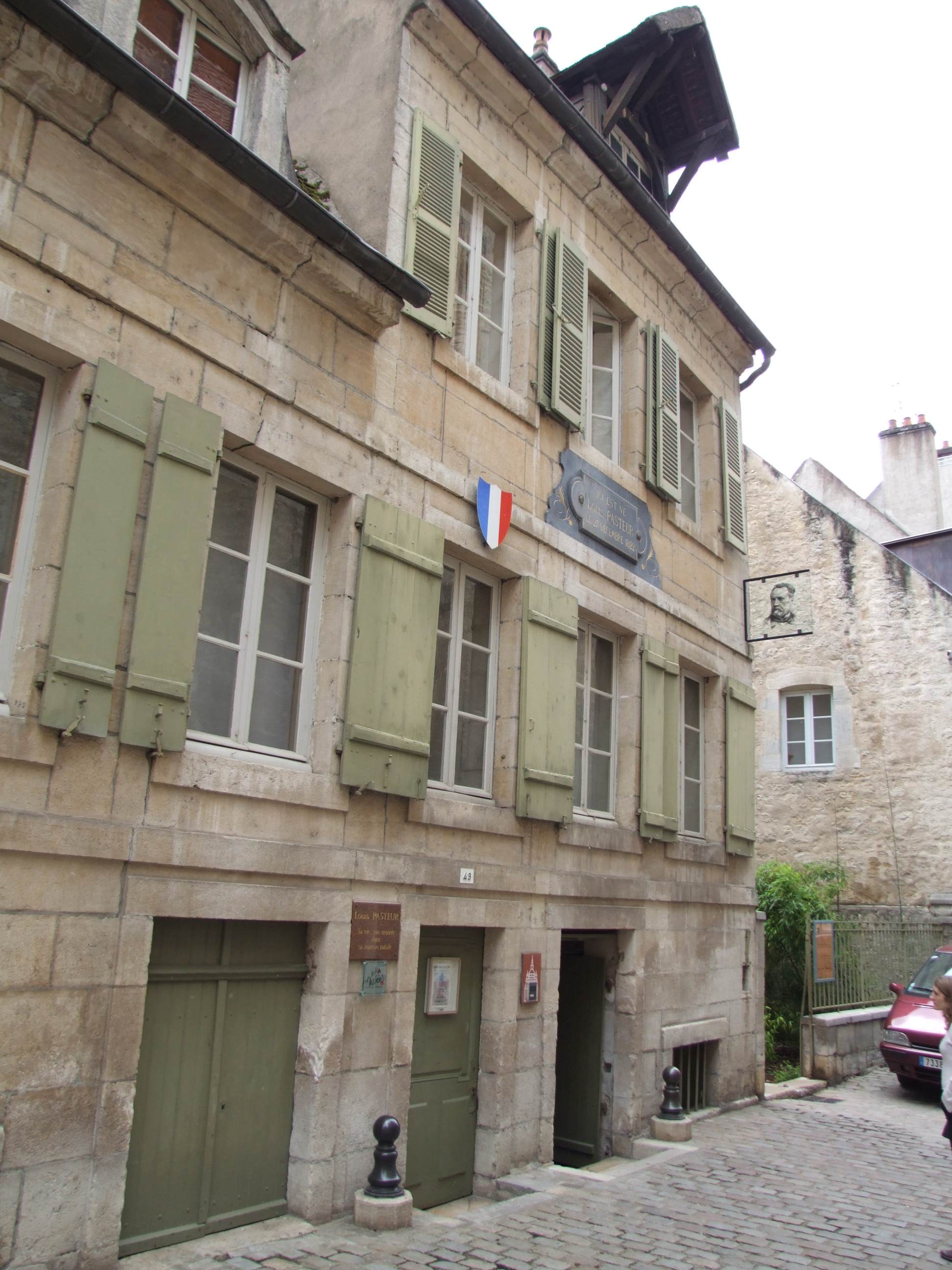 Dole, Jura, FRANCE